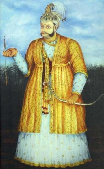 Avittom Thirunal Balarama Varma